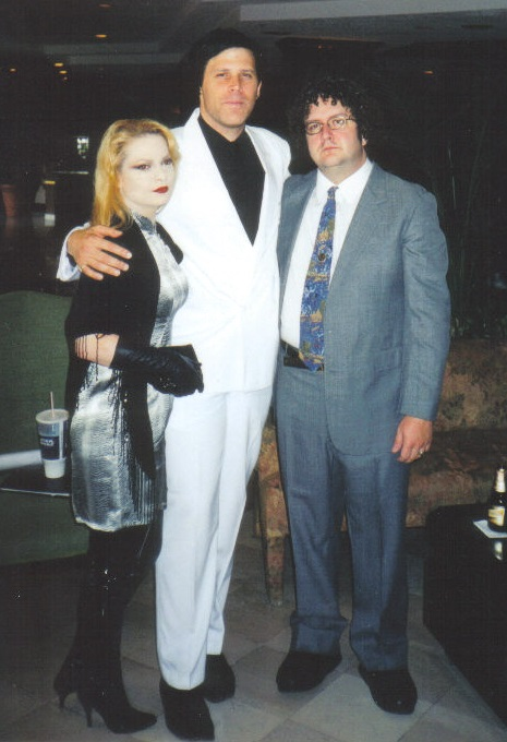 Submitting author is owner and photographer of this image. Caption: Don Webb (right) with Nikolas Schreck (middle) and Zeena Schreck (left) in 1999 Los Angeles Temple of Set Conclave. See also: :Image:Schrecks and Webb cropped.png.